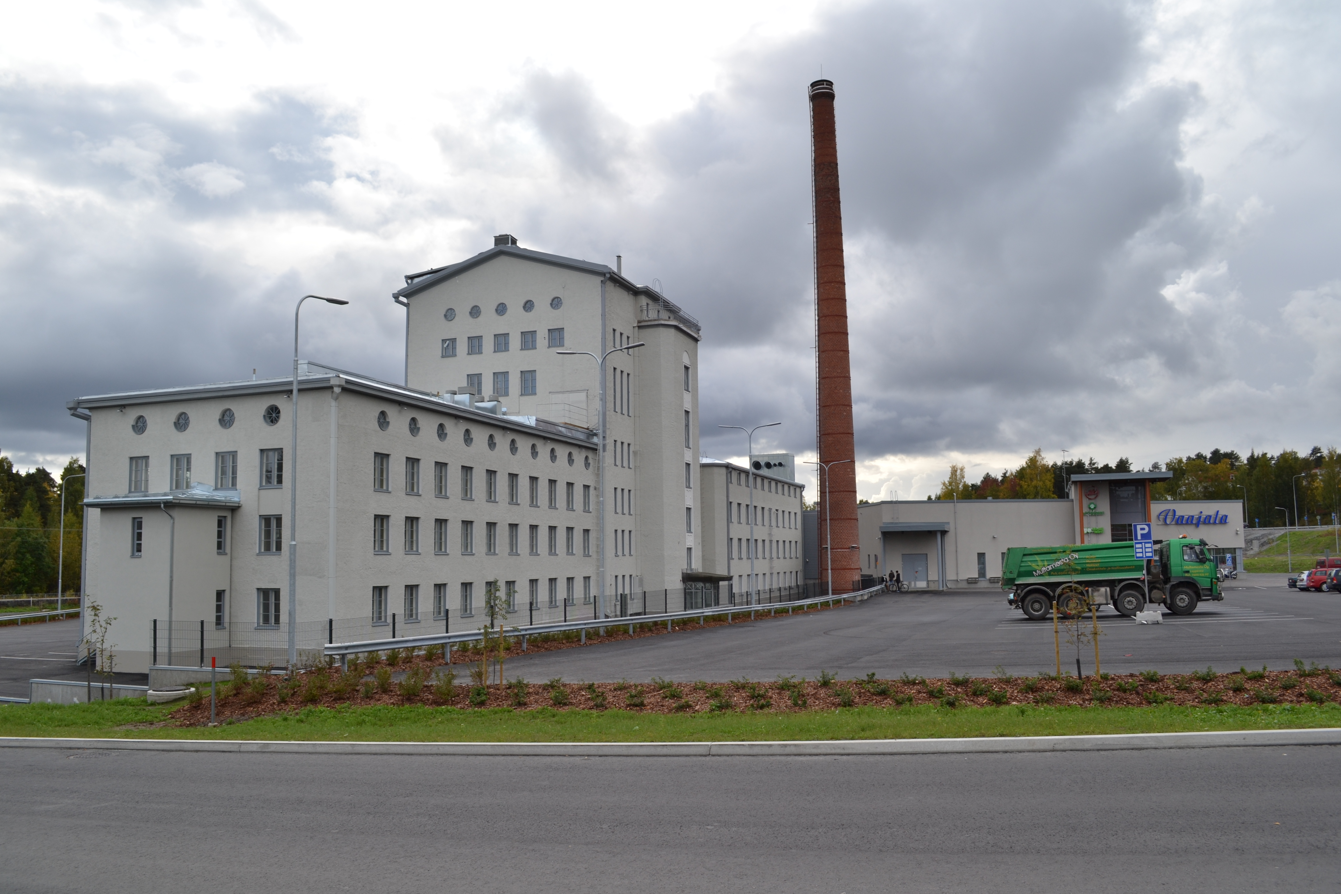 The former Panda candy factory and shopping mall Vaajala in Jyväskylä